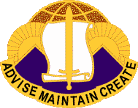 Distinctive unit insignia of the 96th Civil Affairs Battalion, a unit of the United States Army